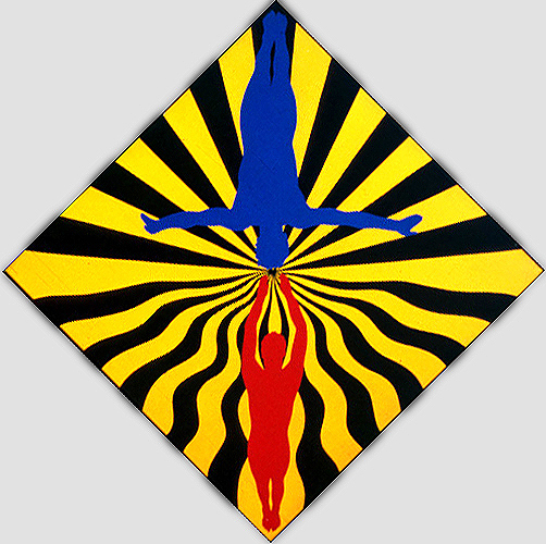 Milton Kurtz: Quasi contacto, acrílico sobre tela, 1989, acervo do Museu Museu de Arte do Rio Grande do Sul Ado Malagoli, Porto Alegre, Brasil.